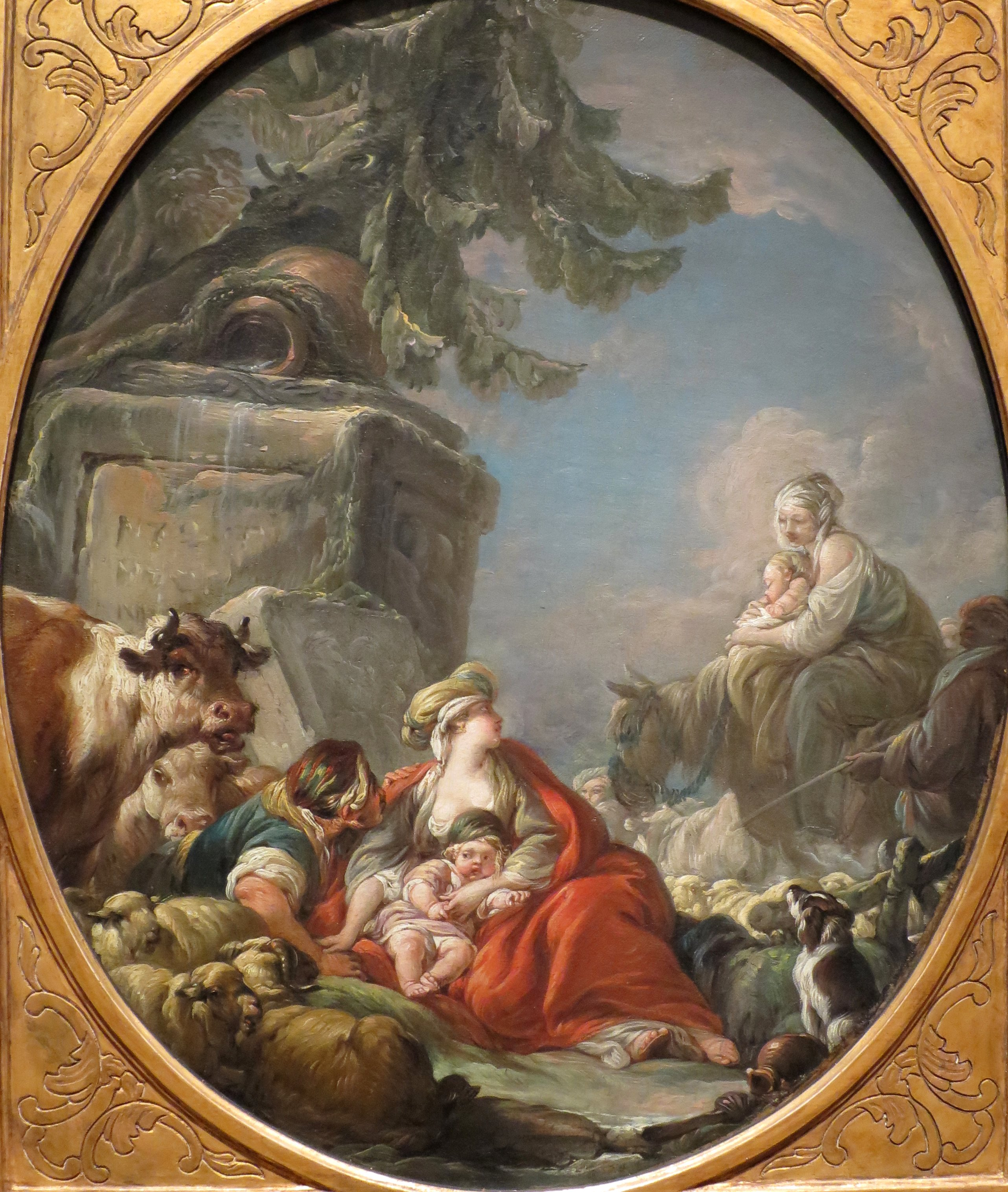 Rest of the Shepherds by Jean-Baptiste Deshays de Colleville, 18th century, oil on canvas, Norton Simon Museum